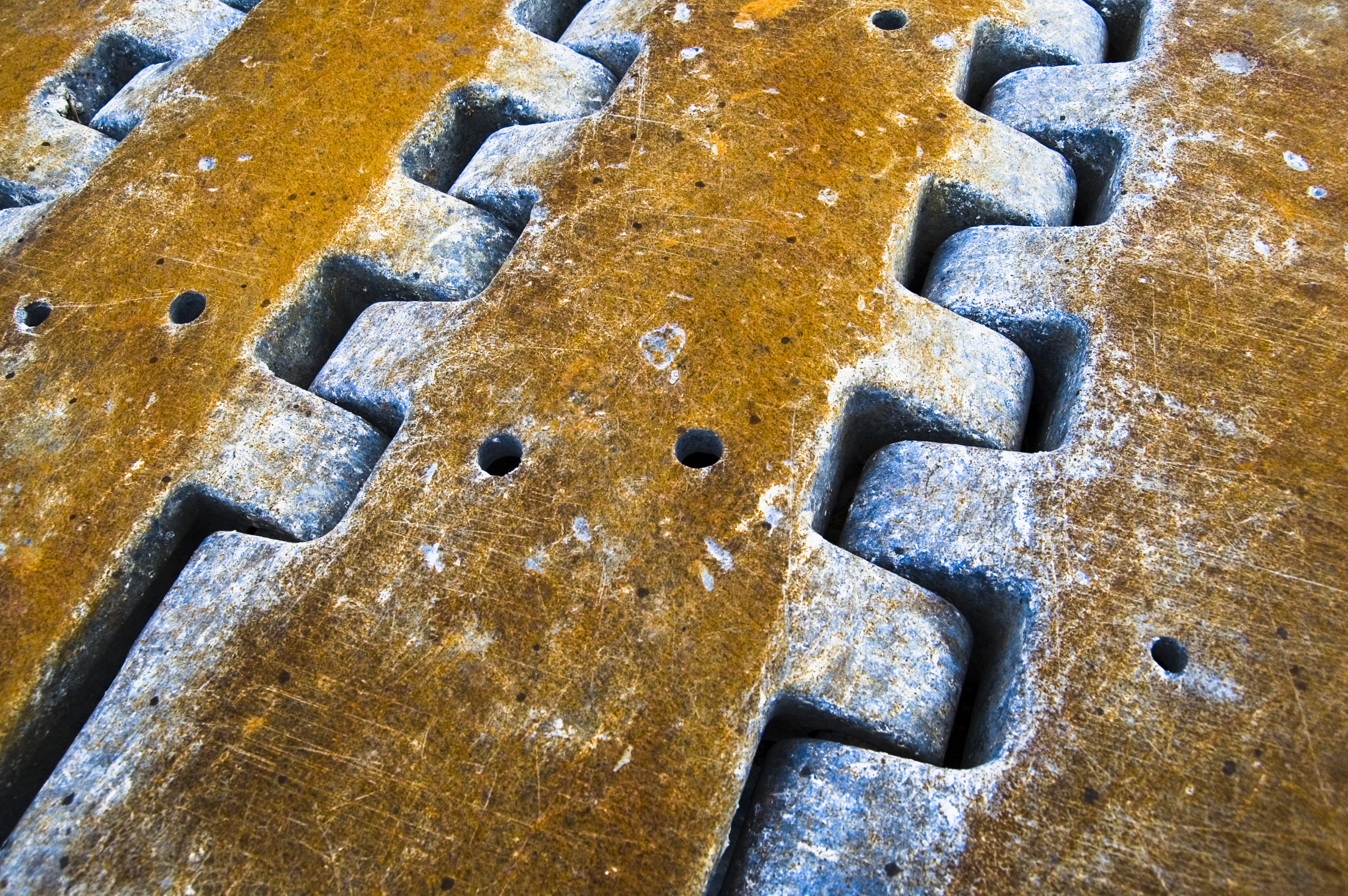 Closeup of the interlocking metal segments of a construction machine's metal track.